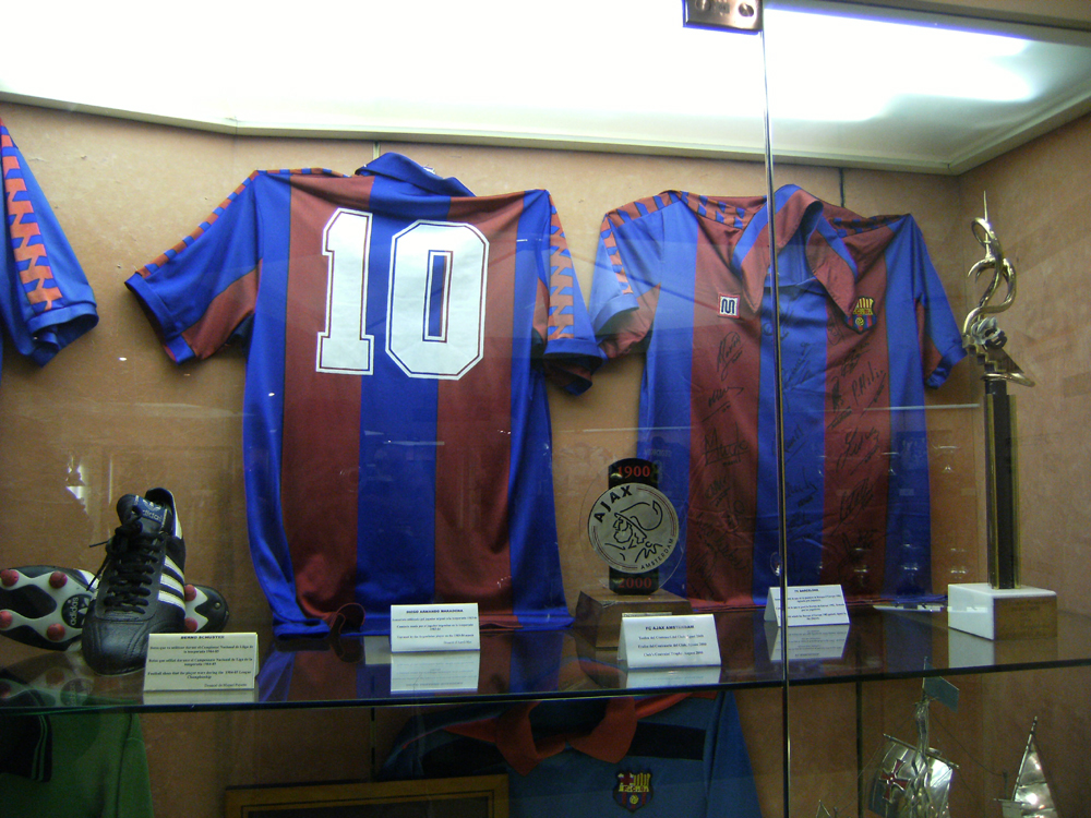 Shirt of Diego Armando Maradona in FC Barcelona museum